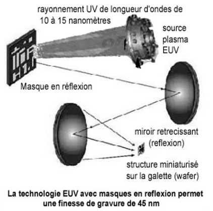 Extreme Ultra-violet (EUV) technology with reflection masks permits lithography of 45nm features